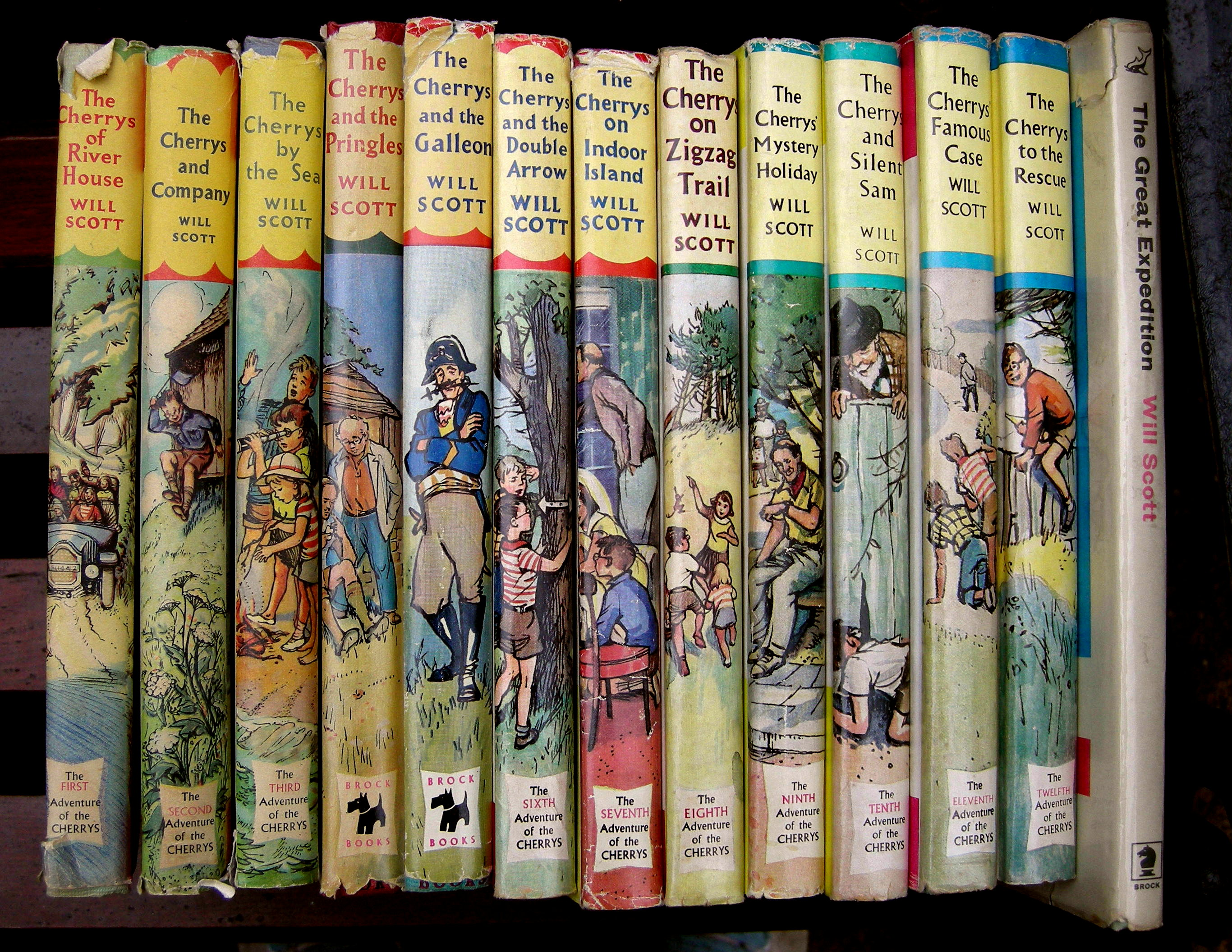 Twelve books from The Cherrys series by Will Scott, plus one other. Published in the 1950s and 1960s.